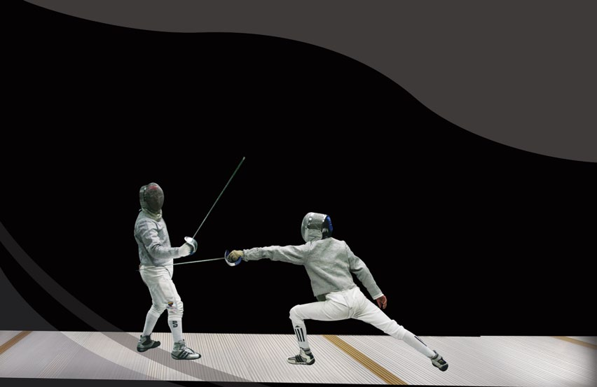 fencing (sabre)